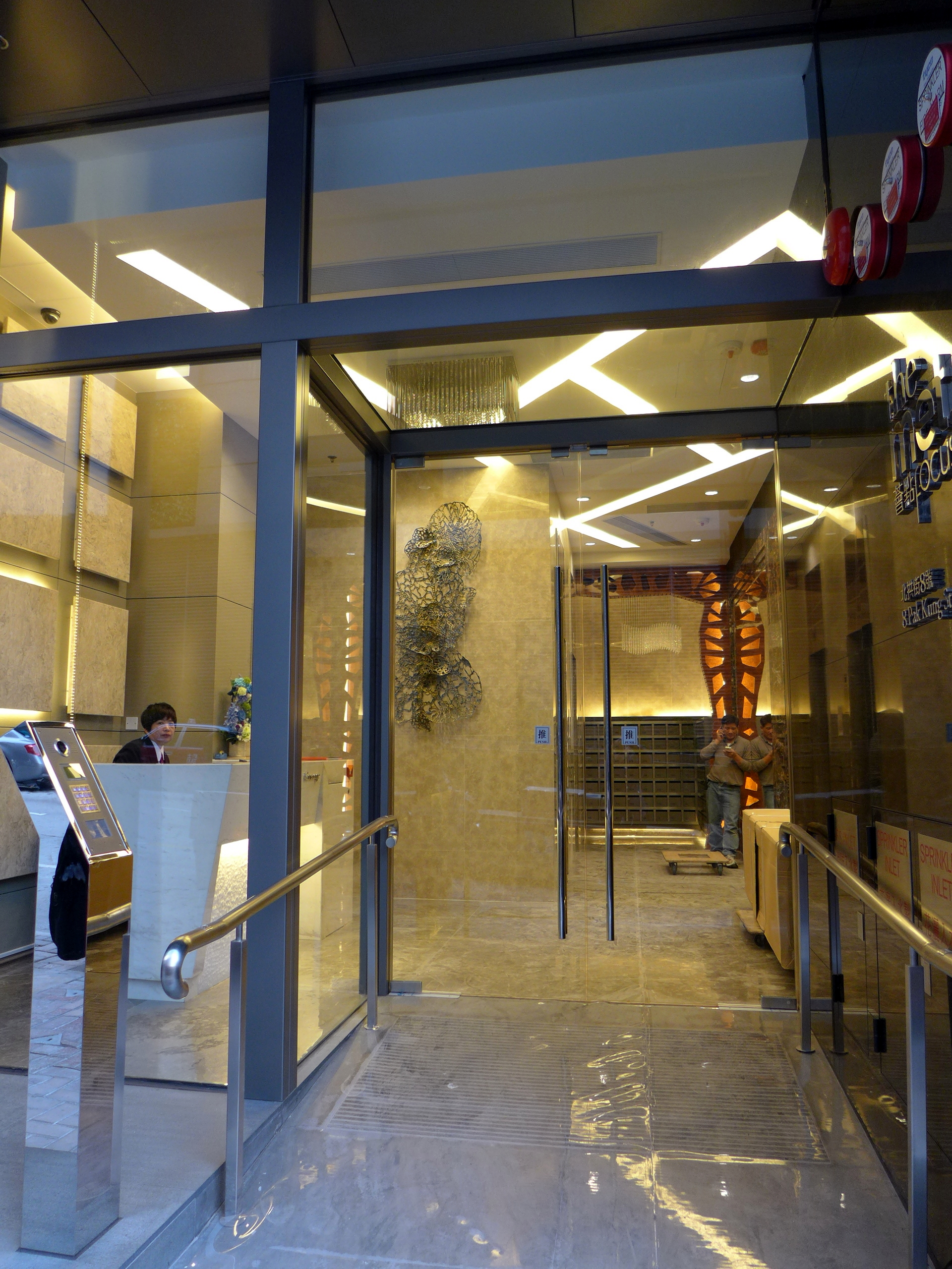 The Met. Focus Entrance